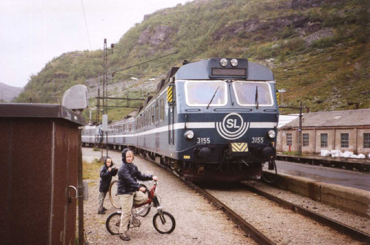 Storstockholm Lokaltrafikk X10 electric multiple units were lent out to Norges Statsbaner during summer for service on Flåmsbana, Norway.